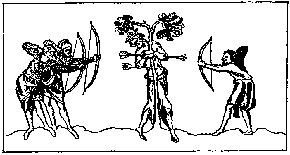 King Edmund of East Anglia is martyred on November 20, 869.